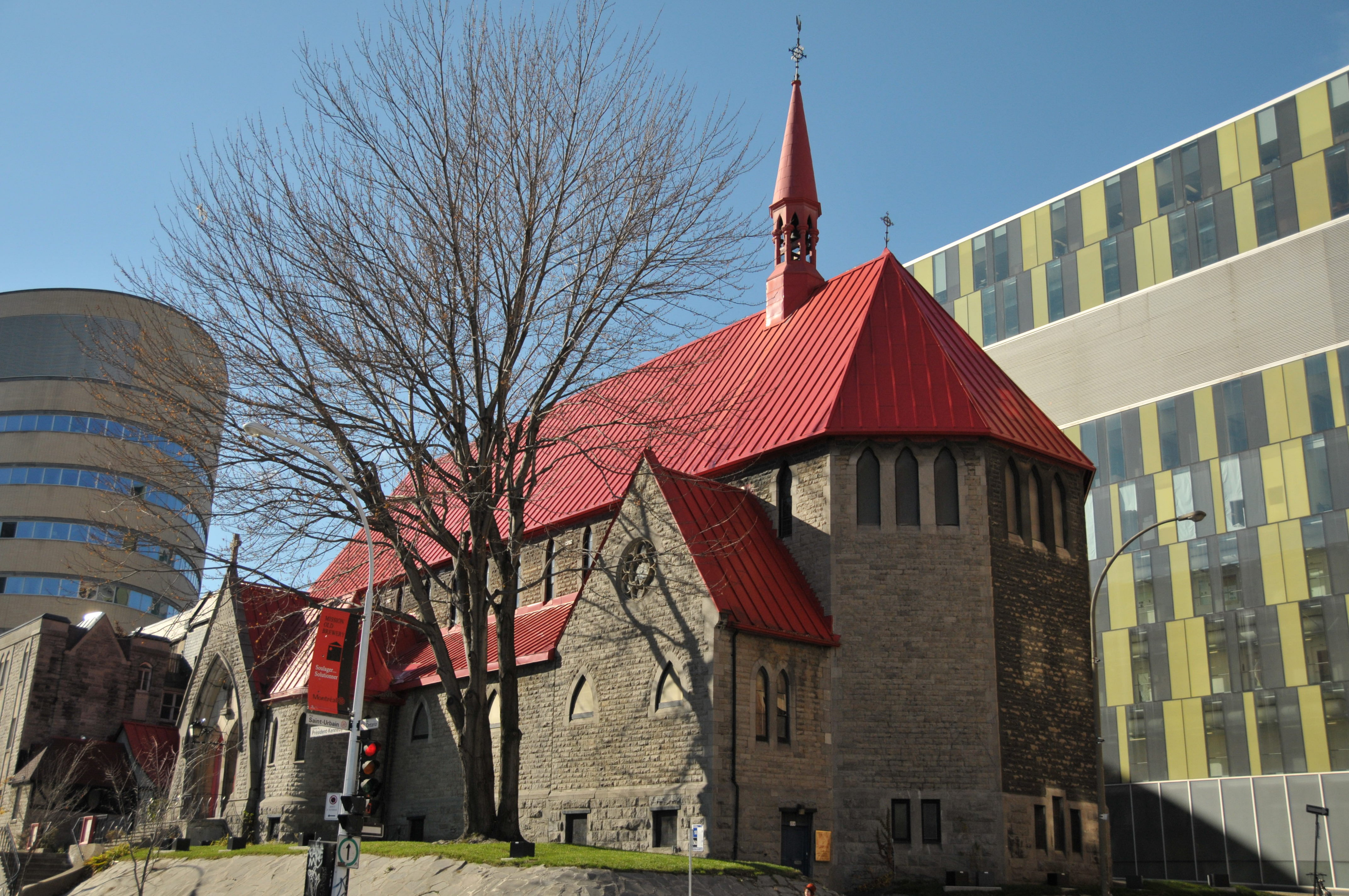 Next to the University of Quebec a Montreal SOOC